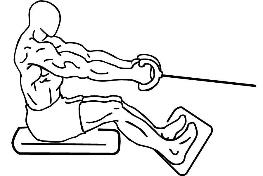 an exercise of upper back